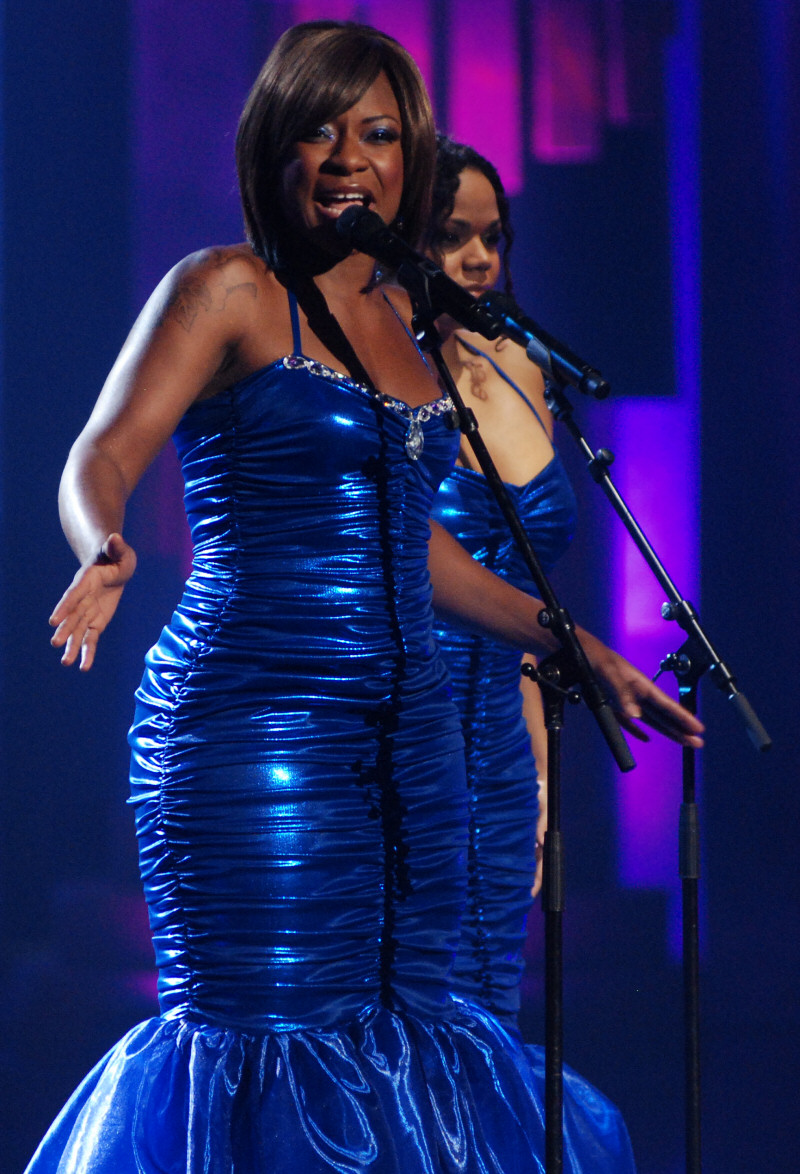 Jully Black at the 2008 Canadian Songwriters Hall of Fame Gala.